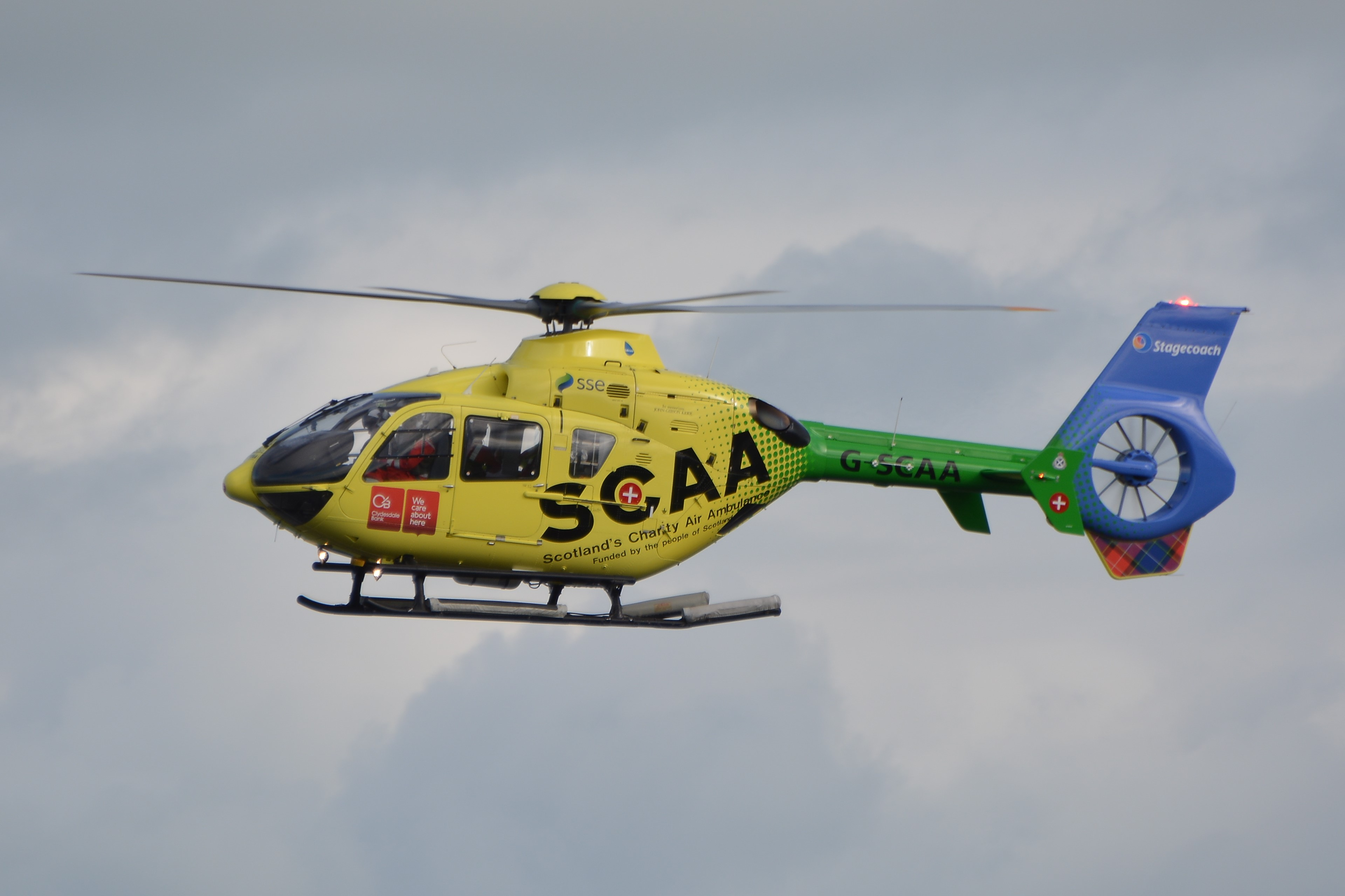 Scotland's Charity Air Ambulance Eurocopter EC135 G-SCAA at Prestwick